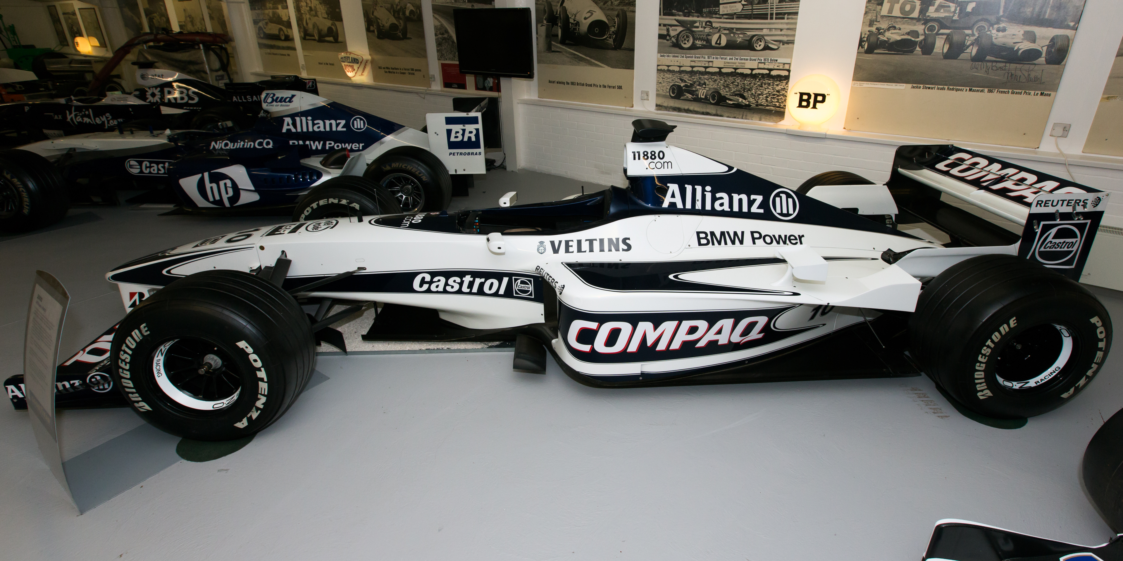 2000 Williams FW22 (#10 Jenson Button)